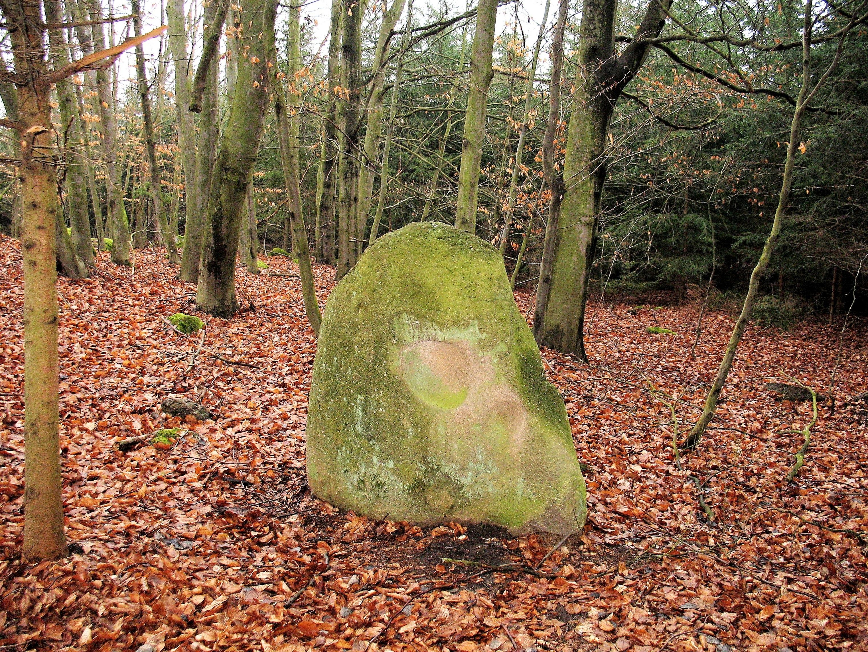 Standing Stone (Menhir) on the hill Pivovarská hora near village Vysoký Chlumec, Příbram District, Czech Republic